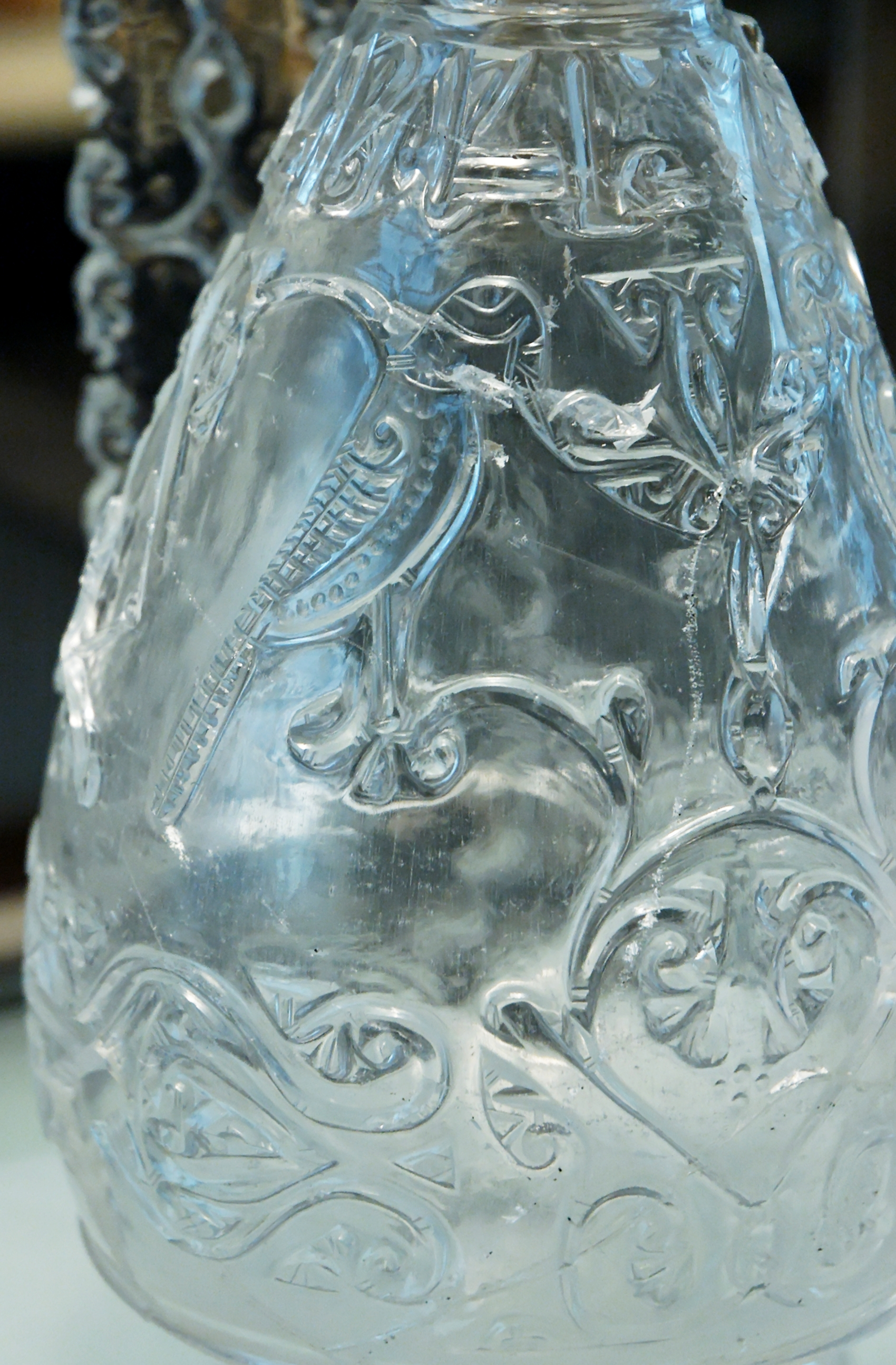 Ewer with birds—close-up on the carvings. Body: rock crystal (Fatimid art, late 10th century–early 11th century); lid: filigreed gold (Italy, 11th century). From the Treasure of Saint-Denis.